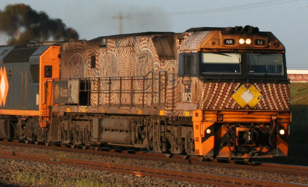 Indigenous liveried NR class diesel locomotive NR52 heads a Melbourne bound freight service at Corio, Victoria. Locomotive before being repainted.